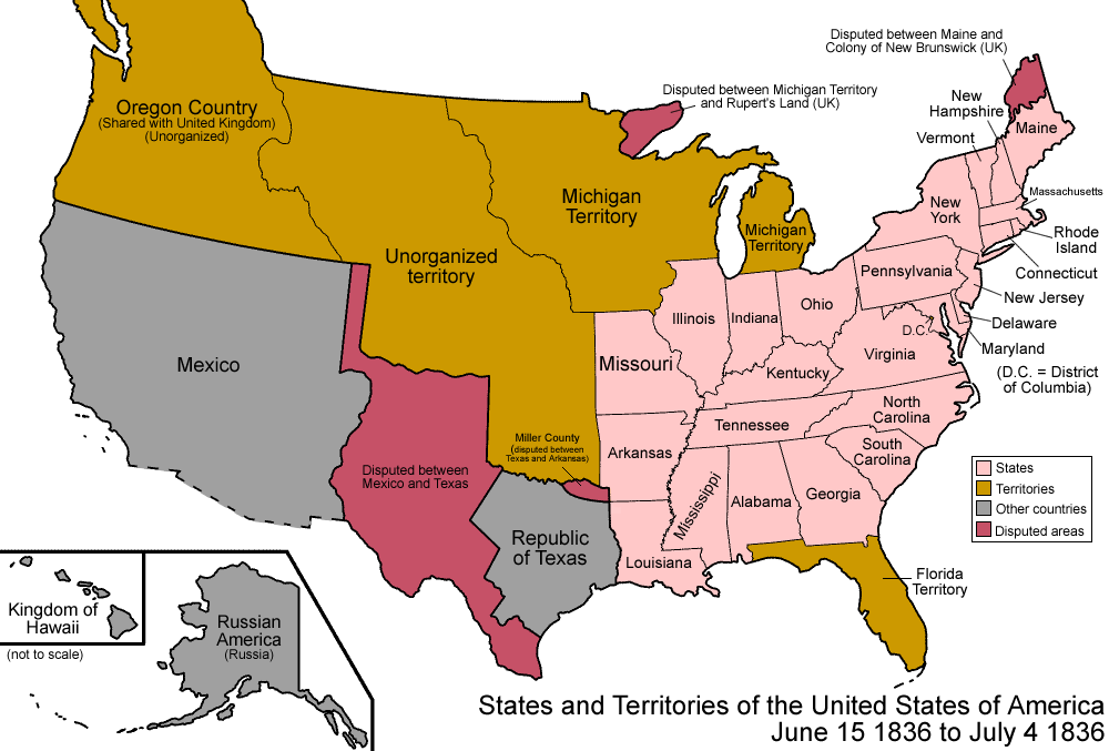 Map of the states and territories of the United States as it was from June 1836 to July 1836. On June 15 1836, Arkansas Territory was admitted as the state of Arkansas. On July 4 1836, the western portion of Michigan Territory was split off as Wisconsin Territory.